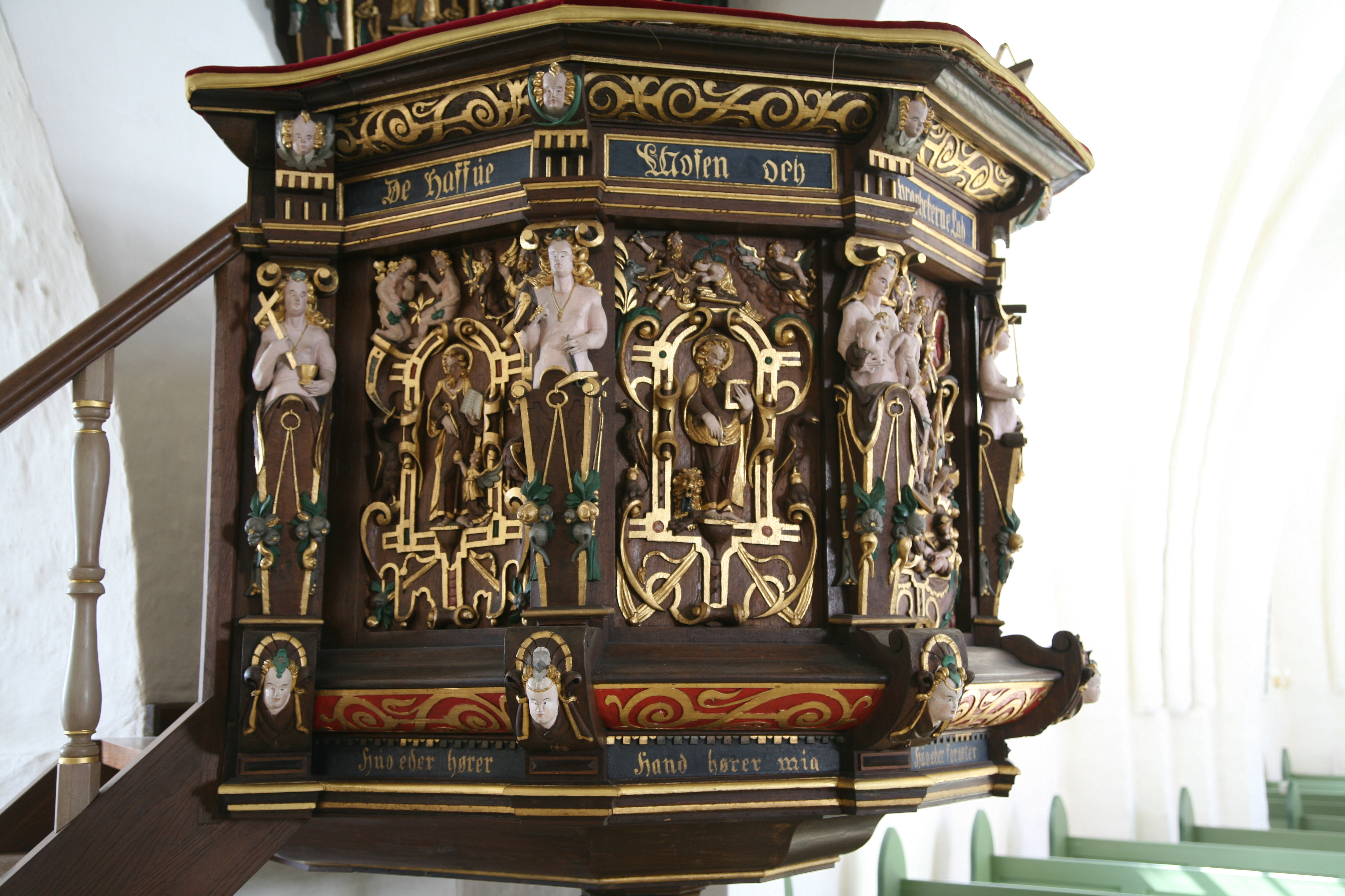 Pulpit in Fyrendal church in Denmark